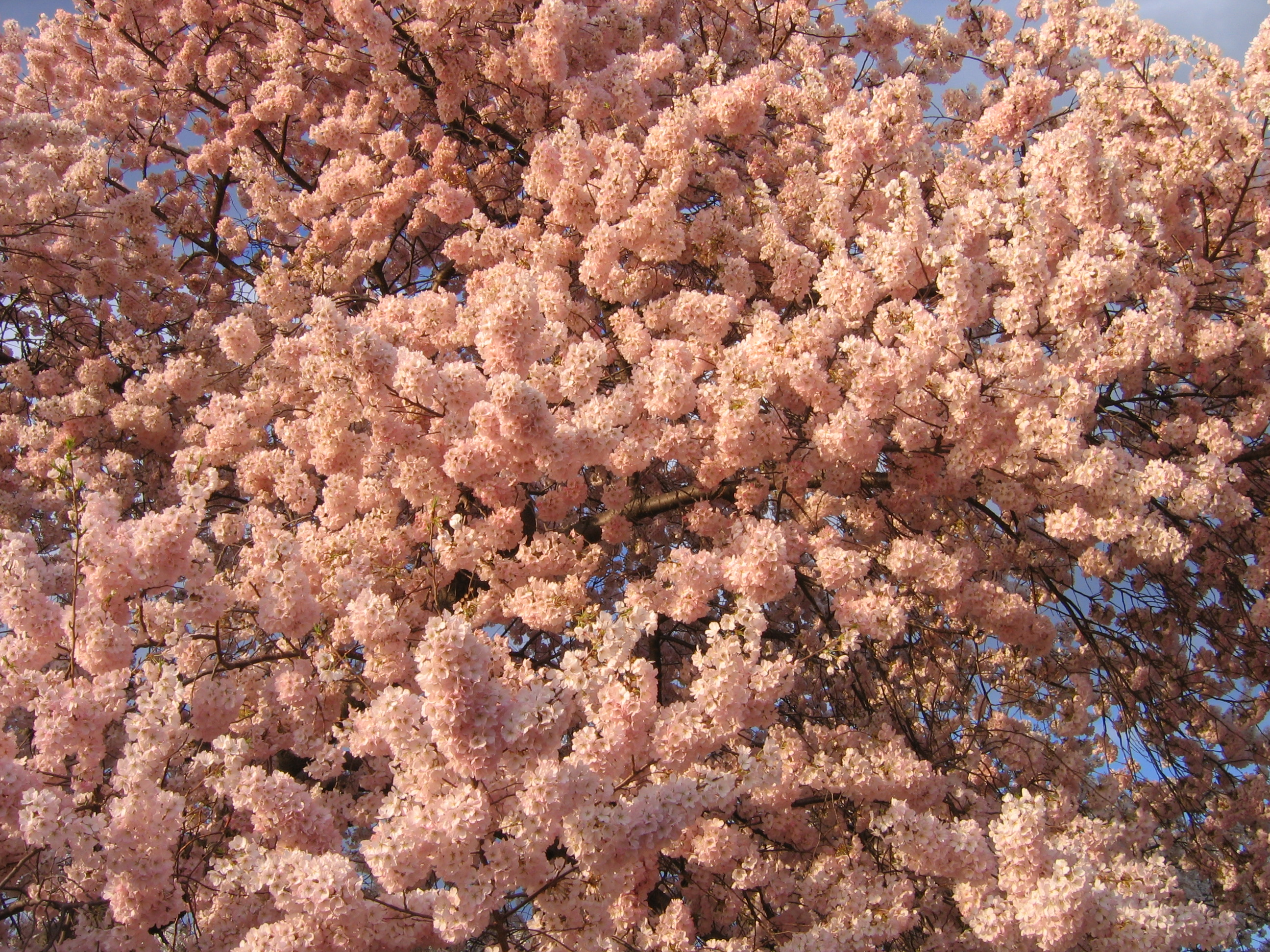 The 2006 Cherry Blossoms in Washington D.C., USA.